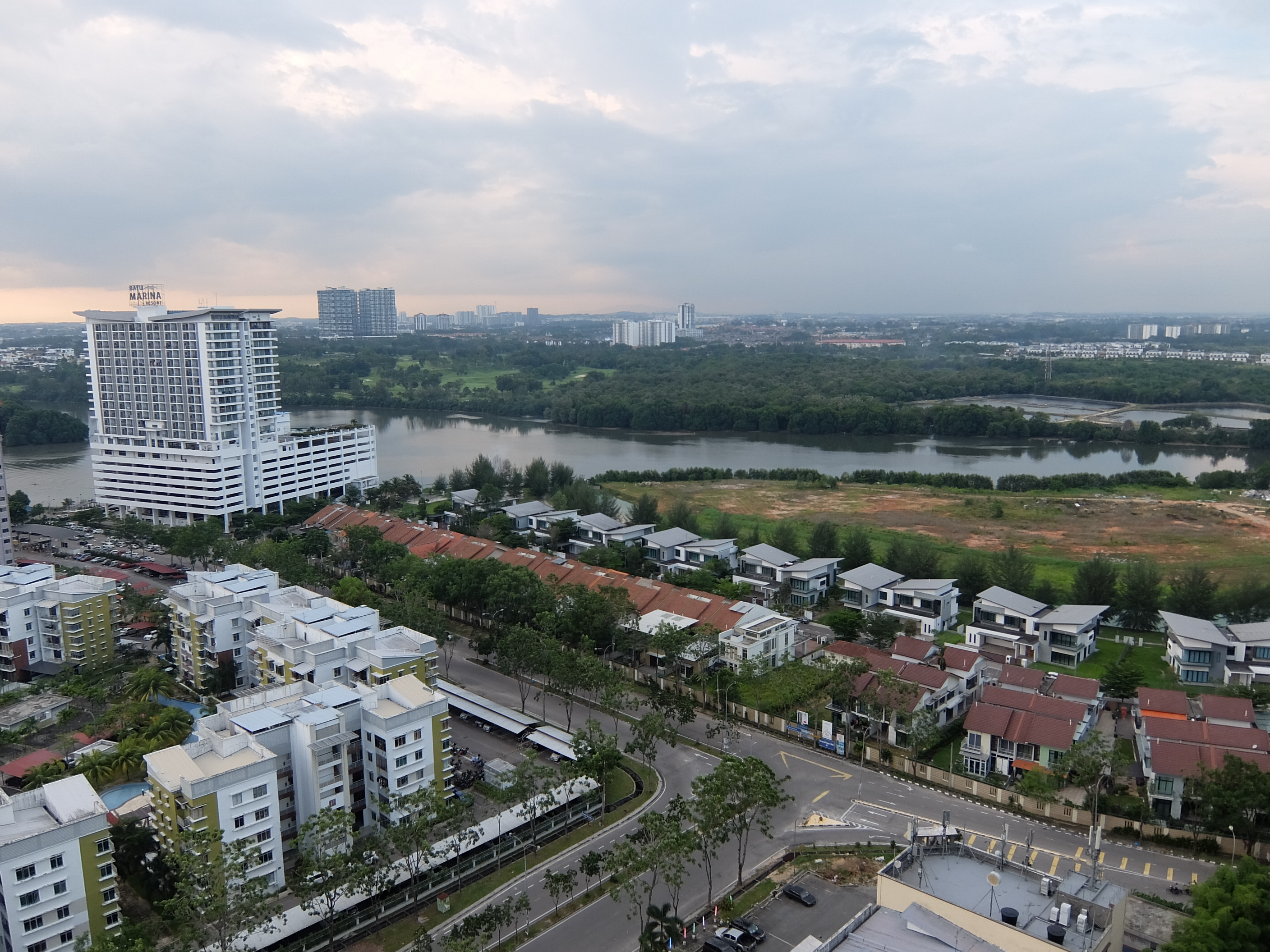 Tebrau River, Permas Jaya, Johor Bahru, Johor, Malaysia